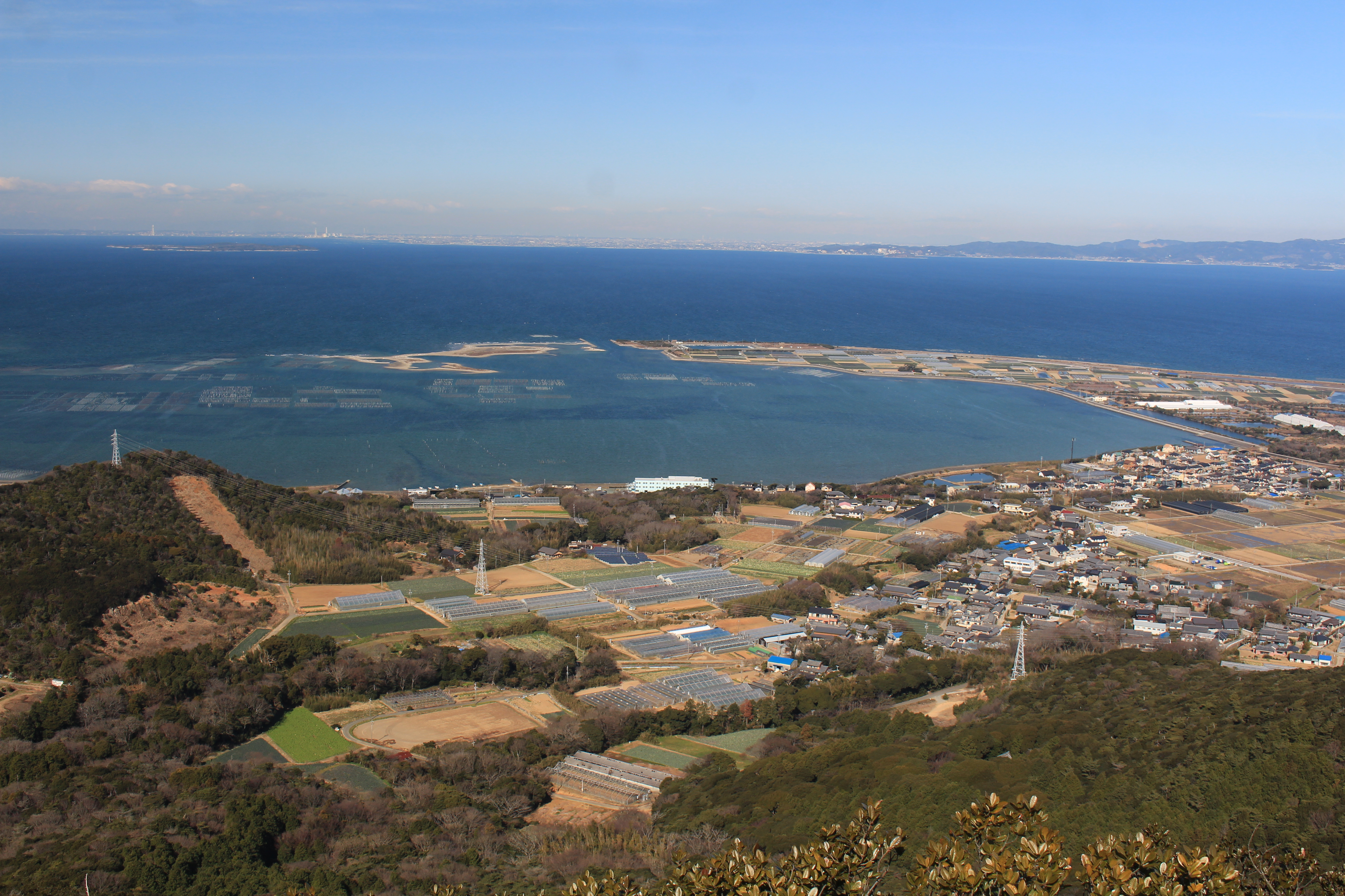 Yarigasaki and Mikawa Bay seen from Mount Amagoi in Tahara, Aichi prefecture, Japan.